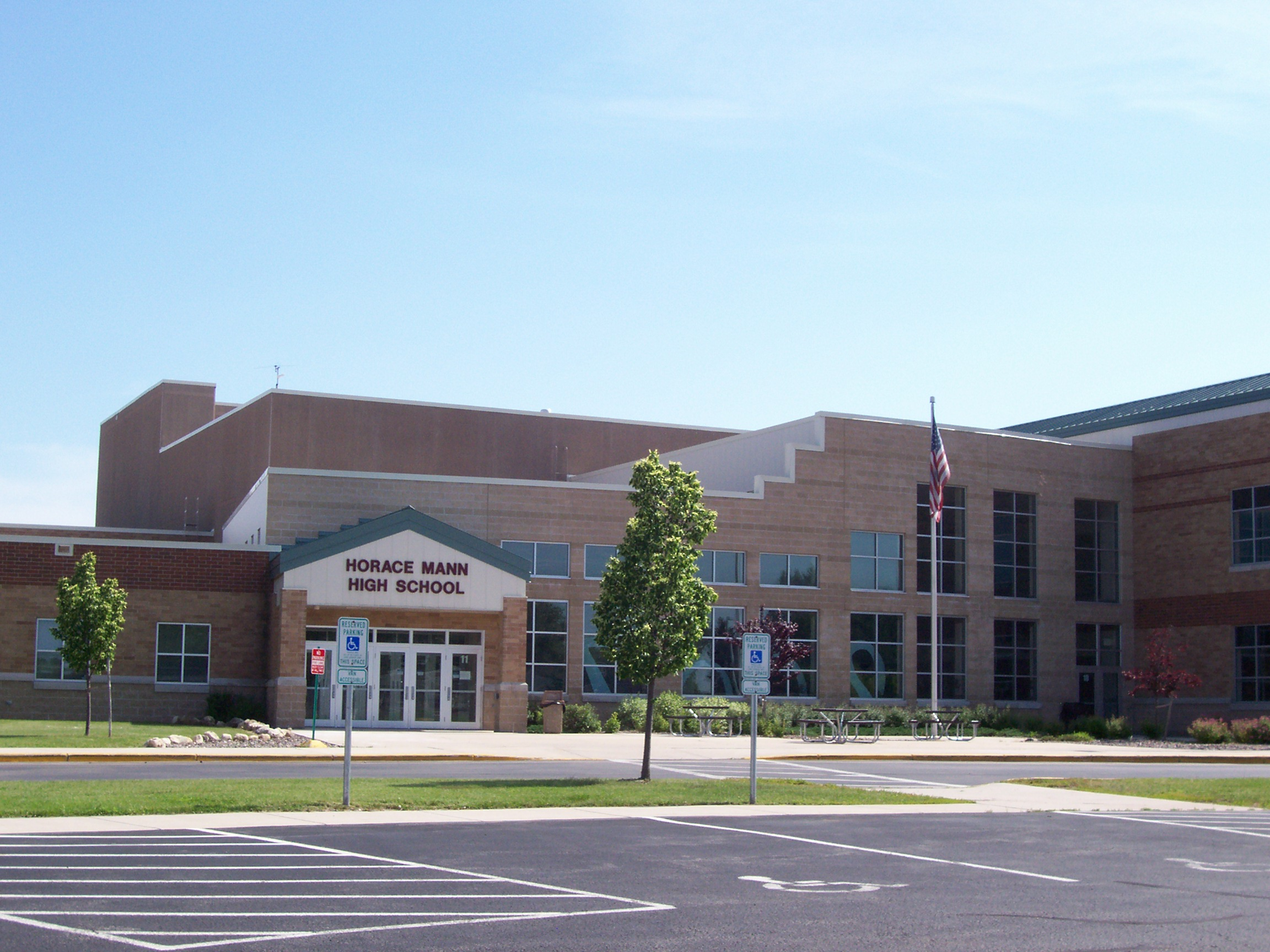 Looking at Horace Mann High School in North Fond du Lac, Wisconsin(USA).